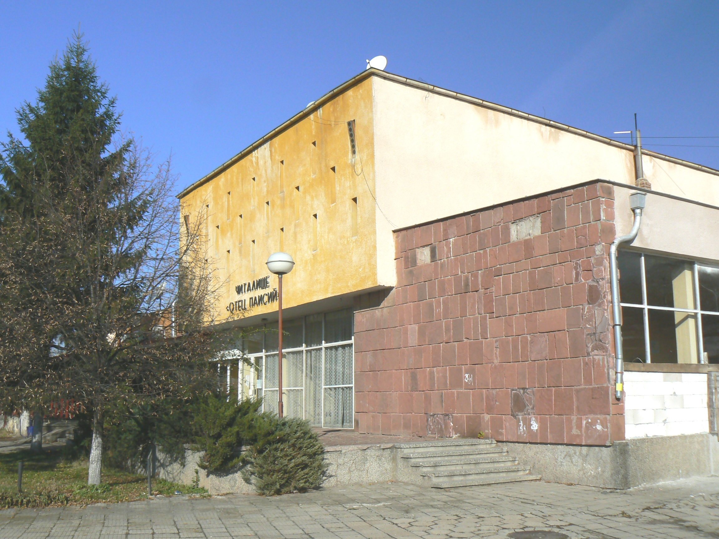 Culture house "Otets Paisii" in village Musachevo, Sofia district, Bulgaria